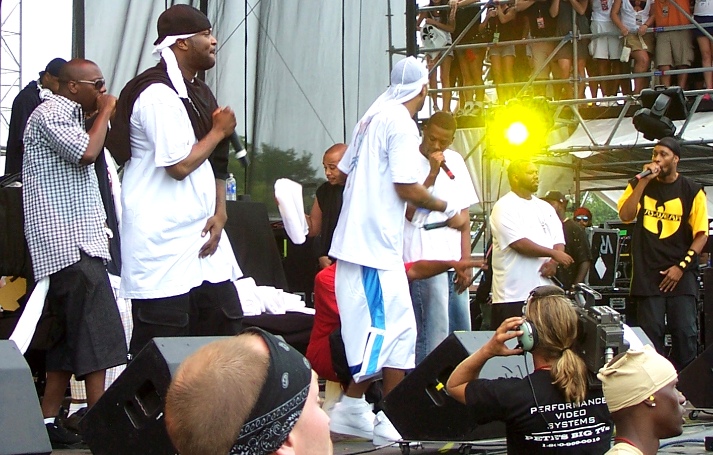 Left to right: Mathematics (in back), Inspecta Deck, Street Life, U-God, Cappadonna (crouched, in red), Method Man, GZA, Raekwon, RZA